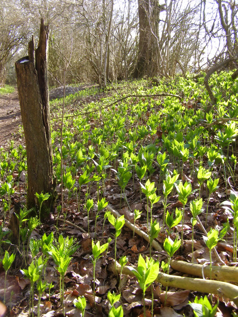 Spring Mercurialis perennis growth in Lower Old Down Plantation. By the side of the footpath that runs along the edge of the plantation, this new growth is illuminated by the spring afternoon sunshine.